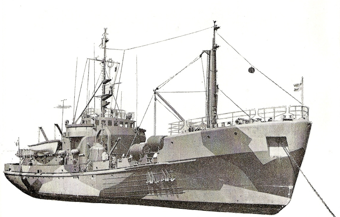 The Swedish submarine rescue ship HMS Belos, commissioned in 1963.